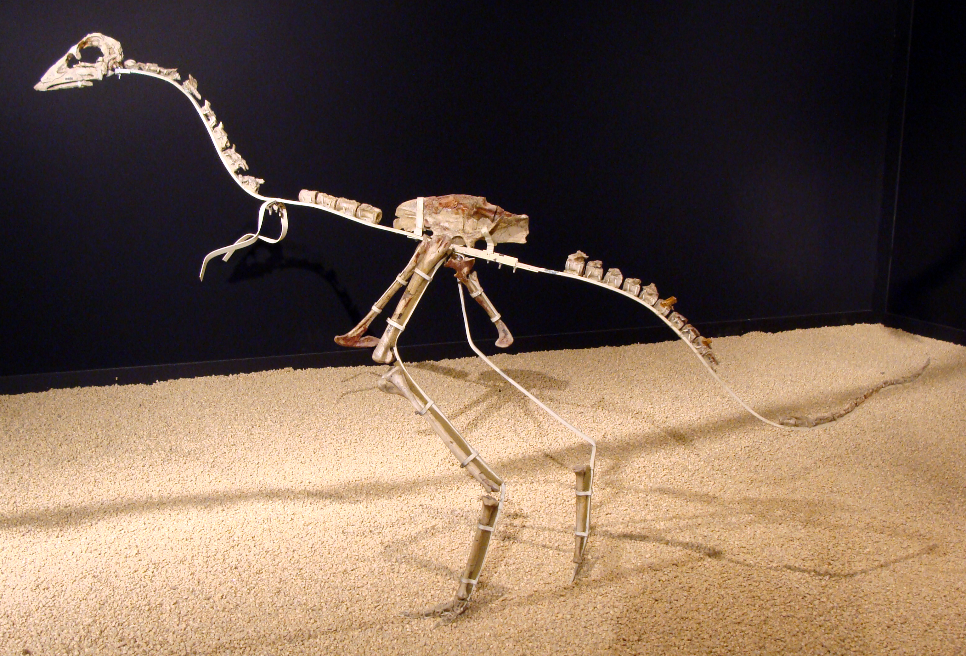 Juvenile Gallimimus bullatus in the exhibition "Dinosaures. Tresors del desert de Gobi" ("Dinosaurs. Treasures of Gobi Desert") in CosmoCaixa, Barcelona.